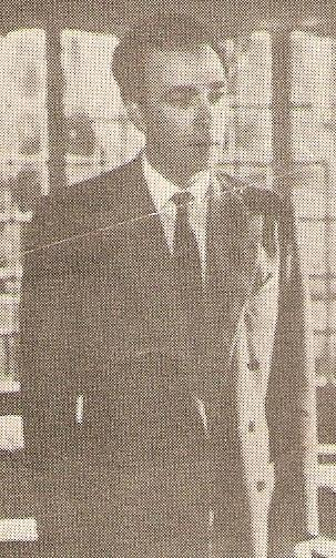 Salem in a shot of the film "Dumu' el Farah".